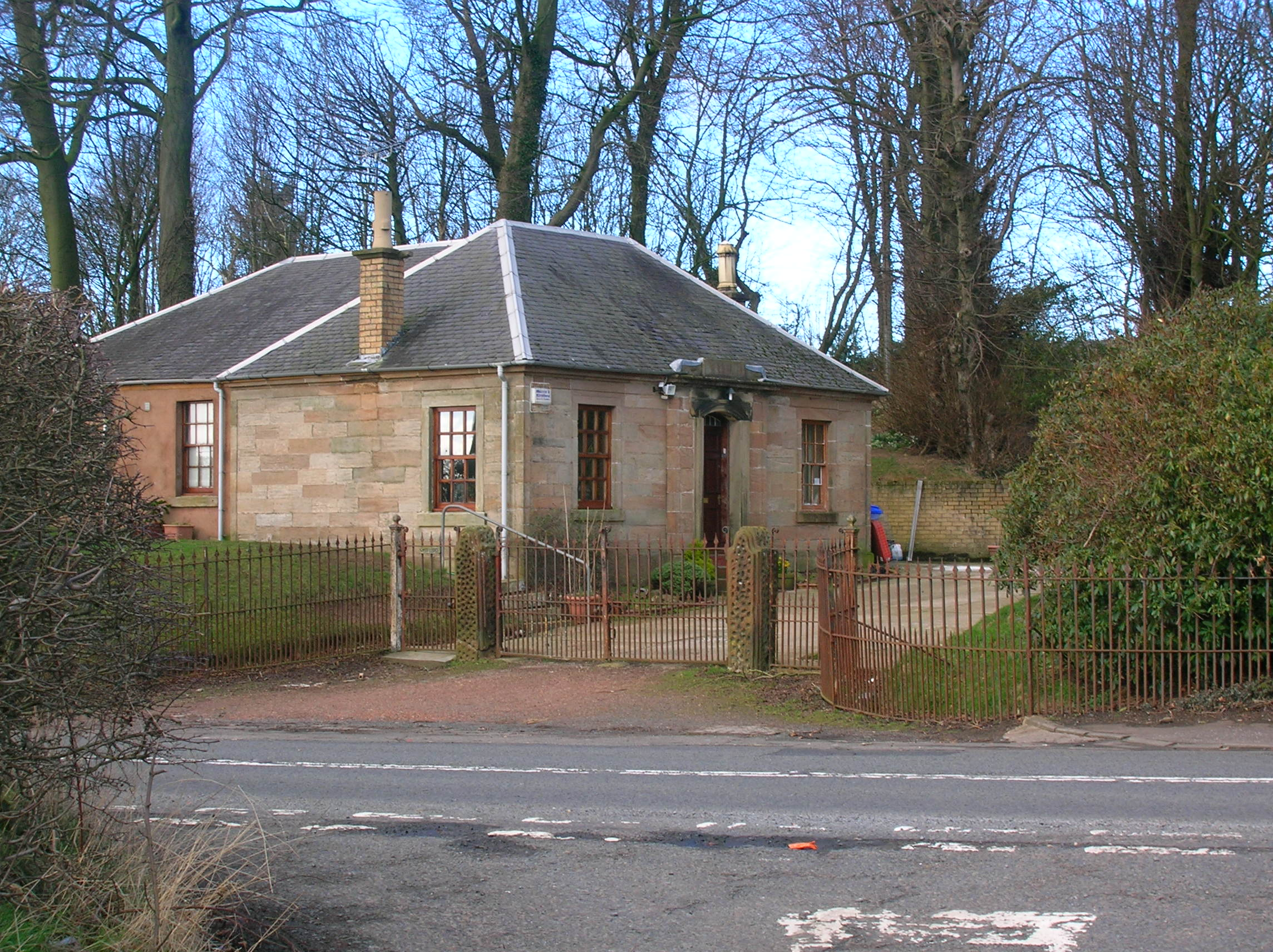 The West Lodge and gates at Thorntoun Eastate, East Ayrshire. 2007.